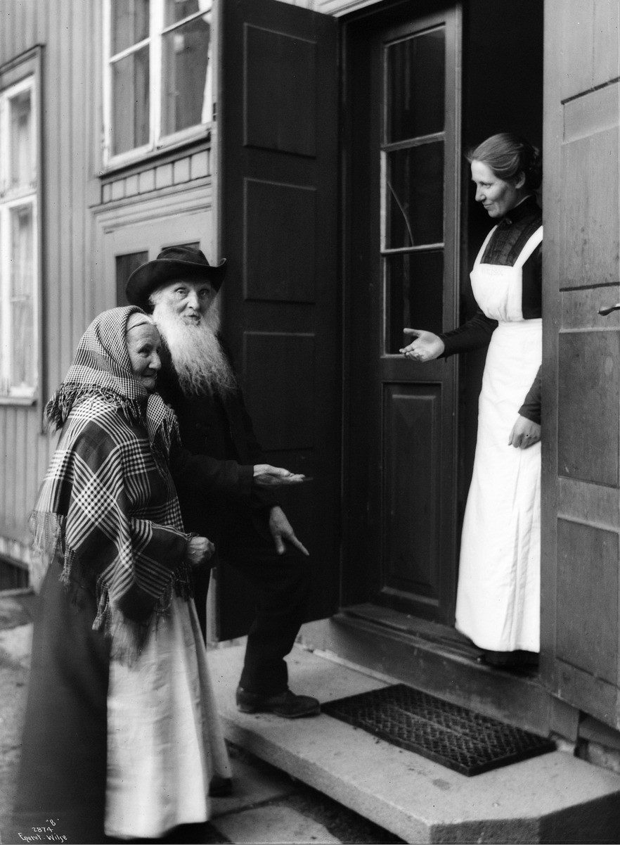 Two new tenants at the Kveldssol I in Verksgata 14, Oslo, a newly opened[1] assisted living place ("old people's home") run by the Salvation Army,[2] here represented by the local director, major Kornelie Bernhardine Danielsen (1869–1954).[3]